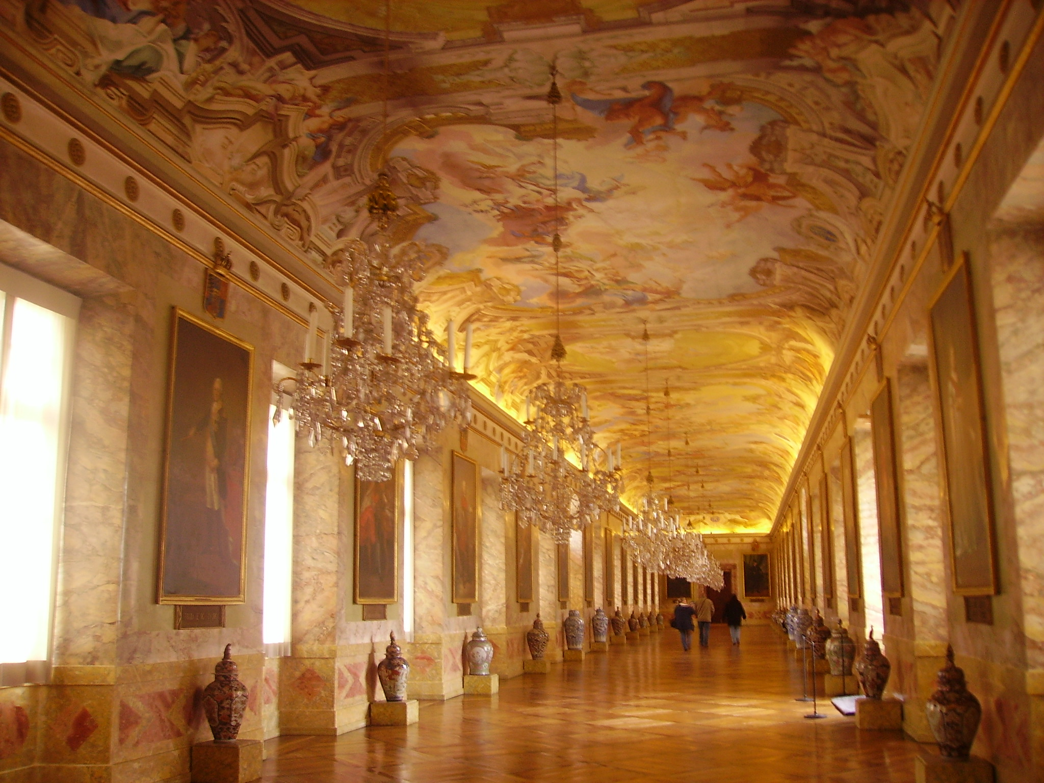 Ancestor's Gallery of Ludwigsburg Palace, Ludwigsburg